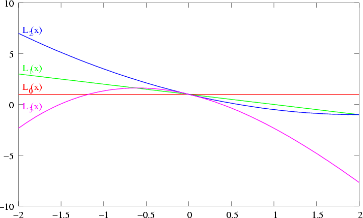 This image was created by Arthur Jan Fijałkowski (WarX) using Open Source software and released under GFDL. Description: Plots of first four Laguerre's polynoms.